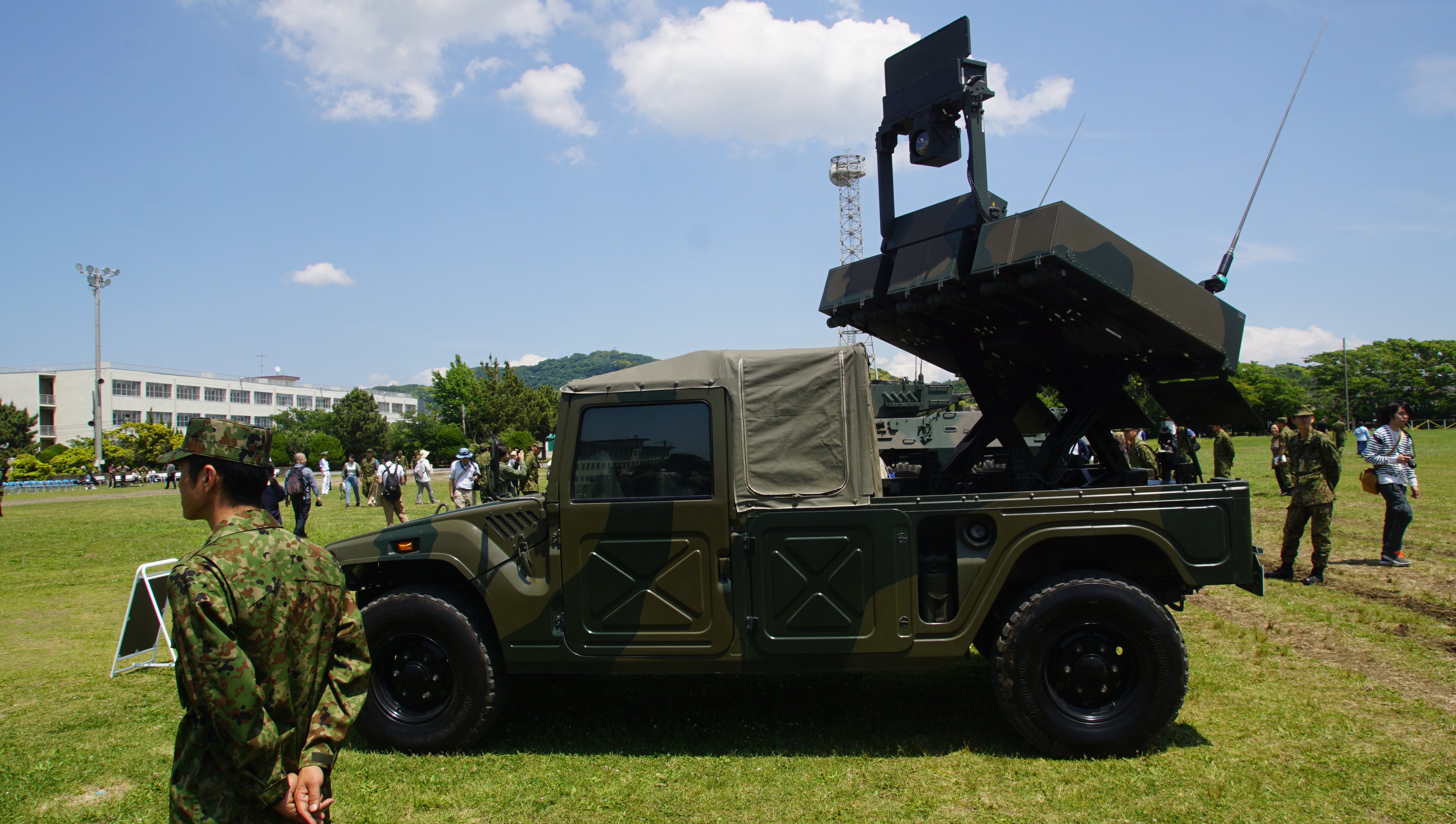 JGSDF Middle range Multi-Purpose missile system